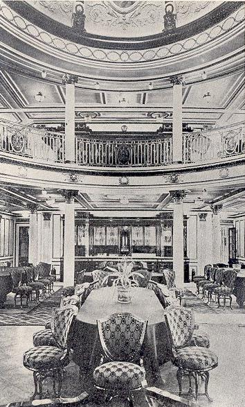 Dining Saloon of the RMS Lusitania